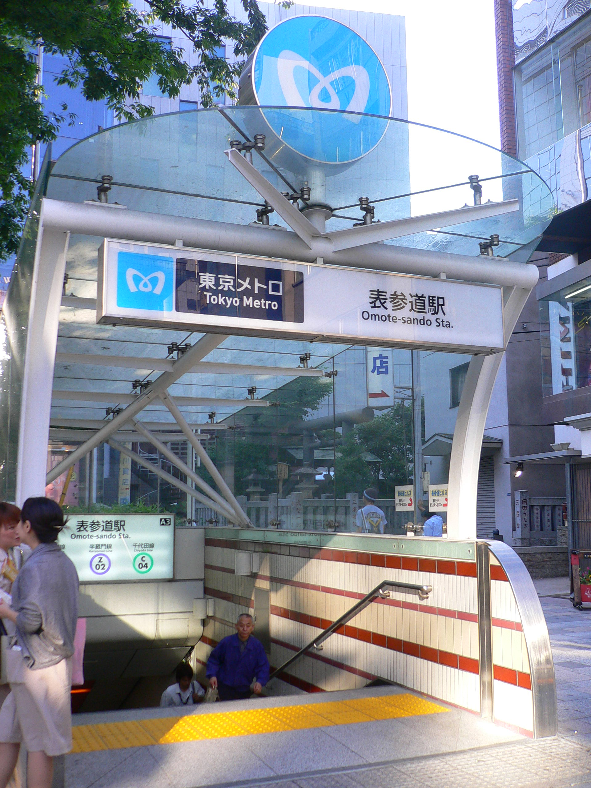 Omotesandō Station (表参道駅), Shibuya W, Tokyo M.